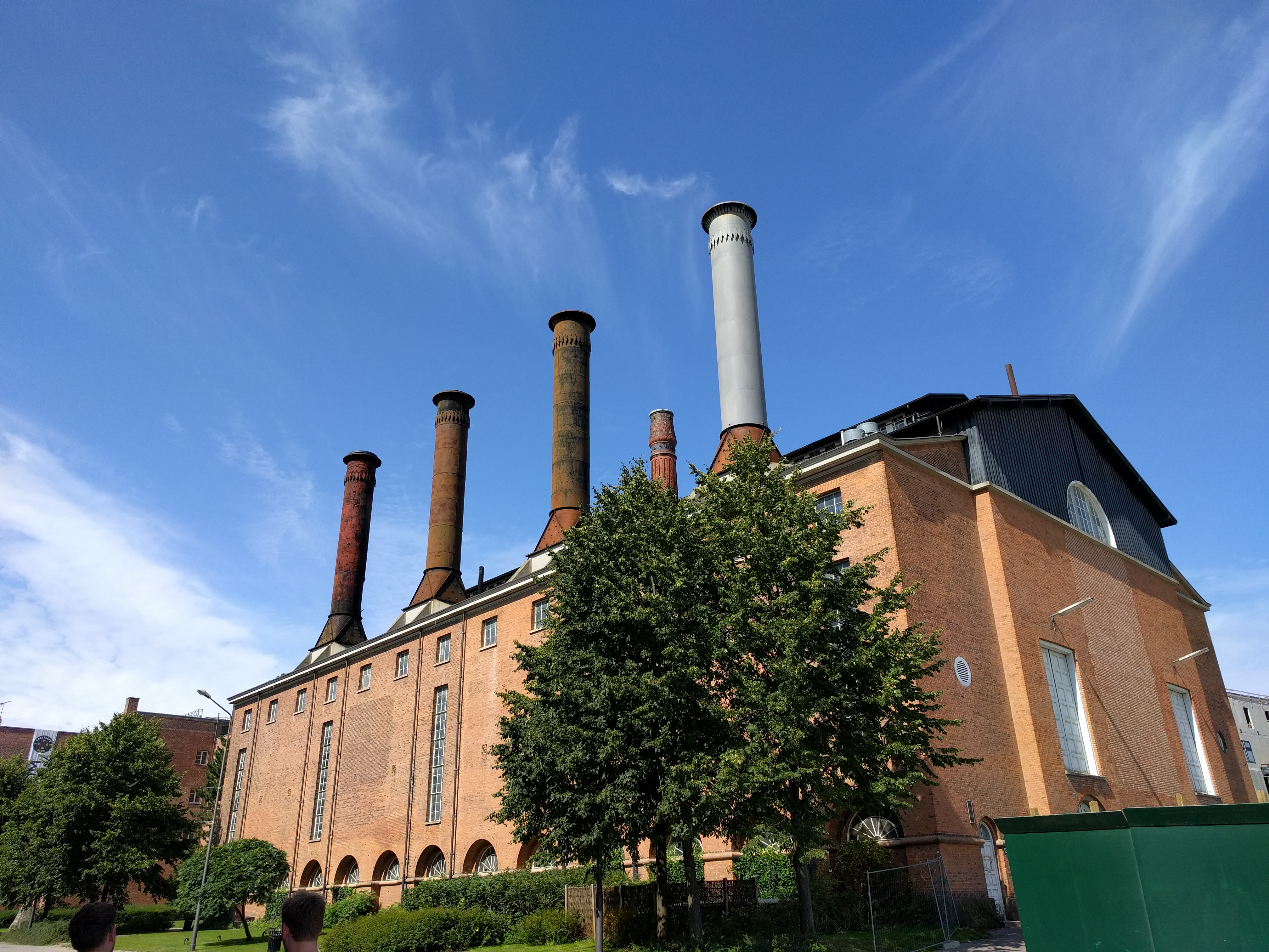 Carlsberg factory